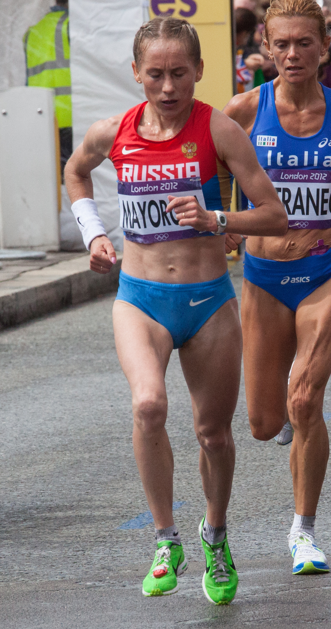 The women's marathon at the 2012 Olympic Games in London was held on the Olympic marathon street course on 5 August 2012.